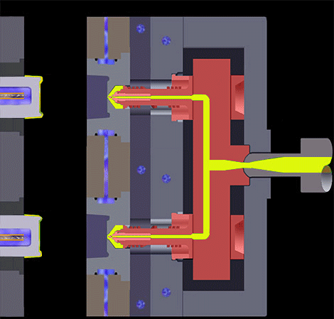 Cross-section of a plastic injection mold with Hot Runner System highlighted. The images shows the "mold open" cycle. This image was created by Orycon Control Technology Inc.